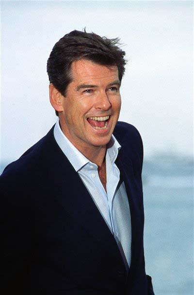 Brosnan Pierce at Cannes in 2002.